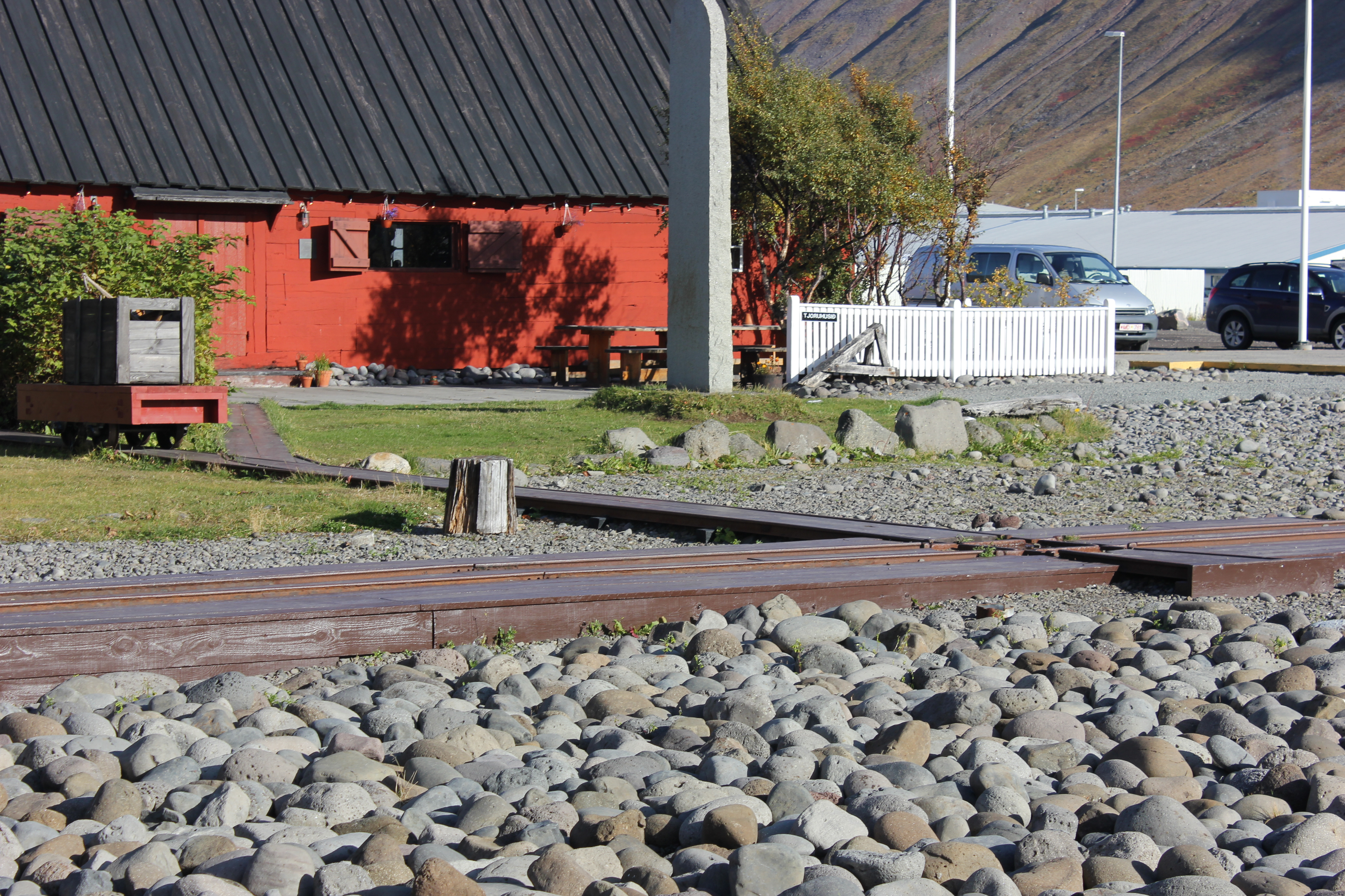 Harbor Railway